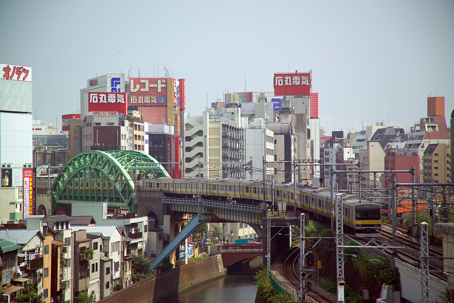 JR East Chuo-Sobu Line Train Crossing the Kanda River, Tokyo, Japan against the Background of the Electric Town of Akihabara.